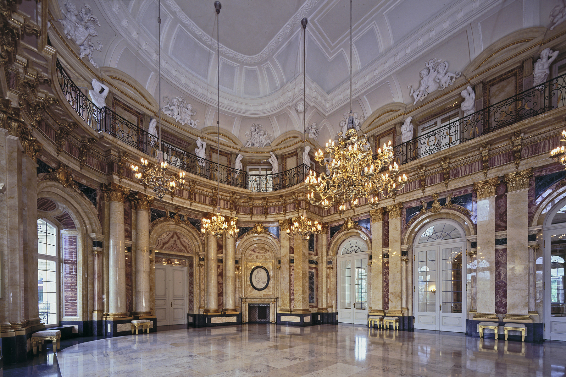 Neues Schloss, Stuttgart, Marmorsaal, Corps de logis. After total destruction in World War II, the reconstruction of this valuable piece of architecture began in 1955, using again freshly broken “Böttingen Marble” from the Swabian Alb. The Böttingen Marble is in fact a geological rarity of travertine. Warm water from a chasm at the border of the rest of a small Miocene diatreme, on which now lies the village Böttingen, piled up “Ribboned Böttingen Marble.”